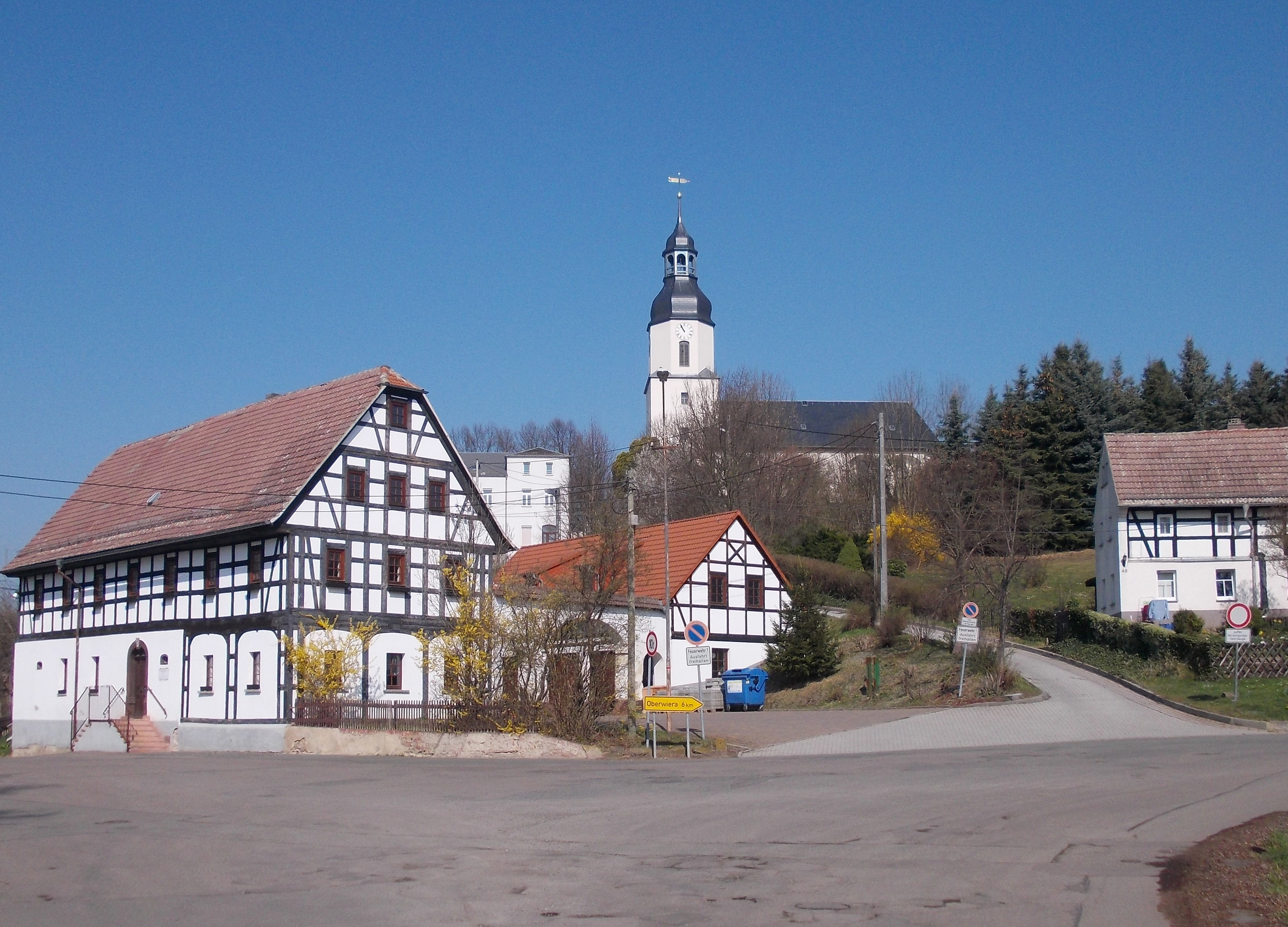 Northern part of Schönberg (Zwickau district, Saxony) with the church